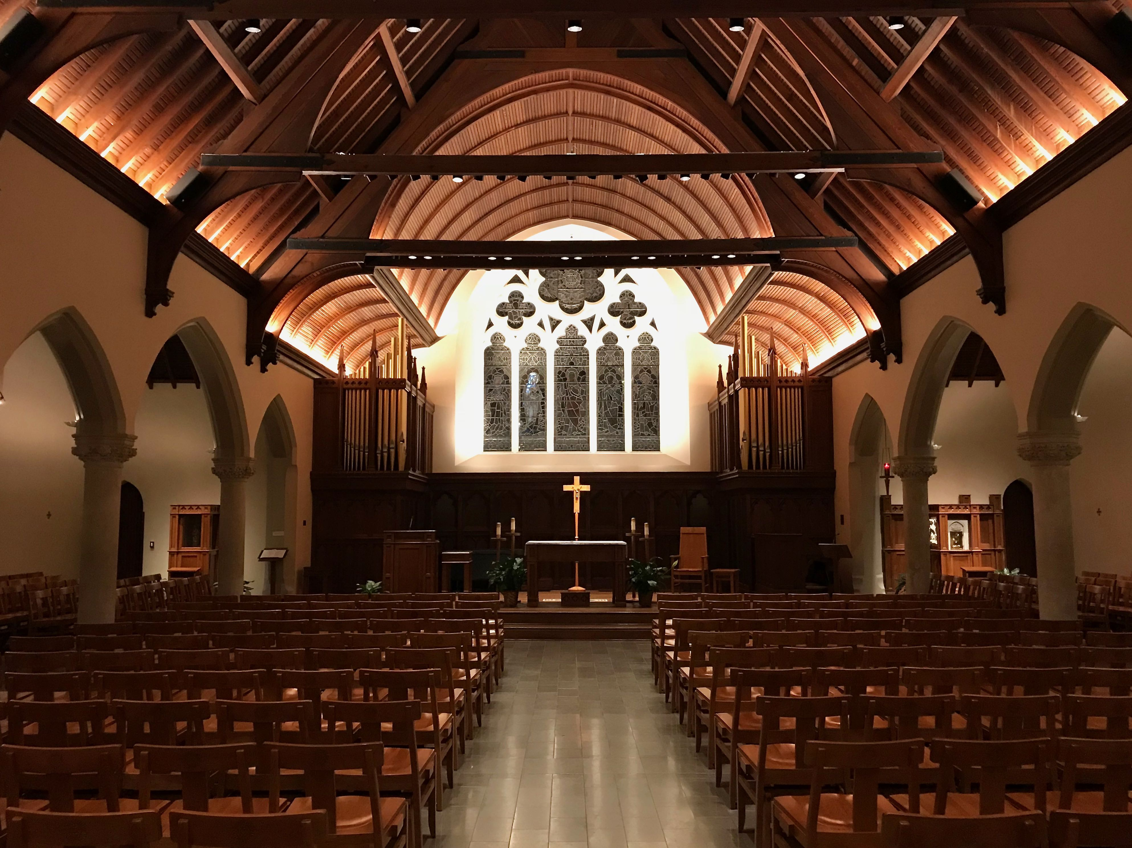 Interior of Dahlgren Chapel of the Sacred Heart on Georgetown University's campus at night, facing the altar.